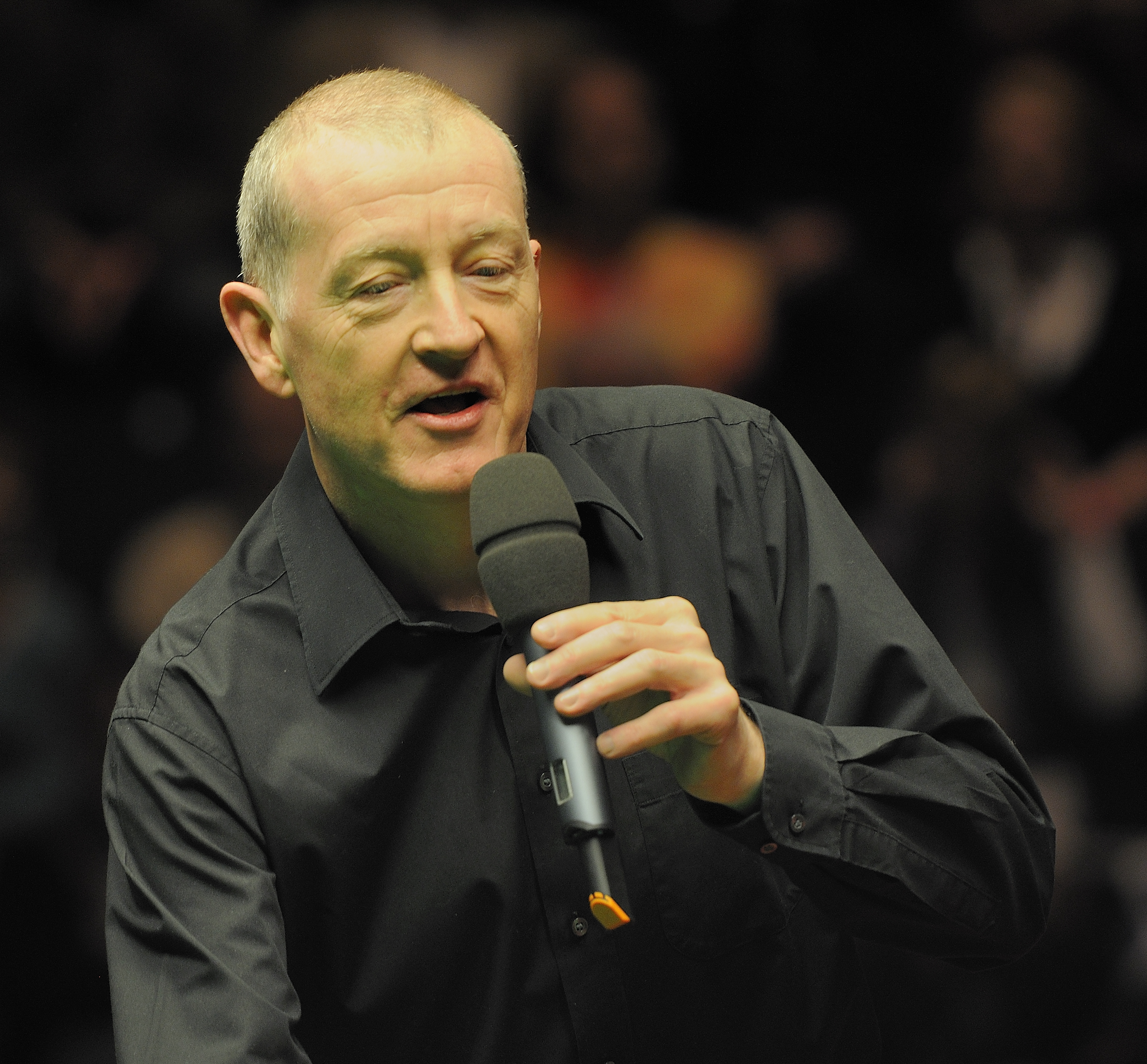 Picture taken in Berlin during the Snooker German Masters in 2011. Steve Davis.